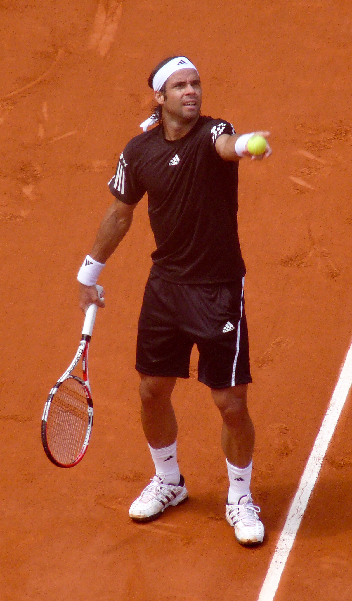 Fernando González against Robin Söderling in the 2009 French Open semifinals